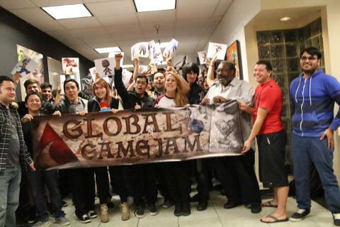 Mt Sierra College is proud to host Global Game Jam